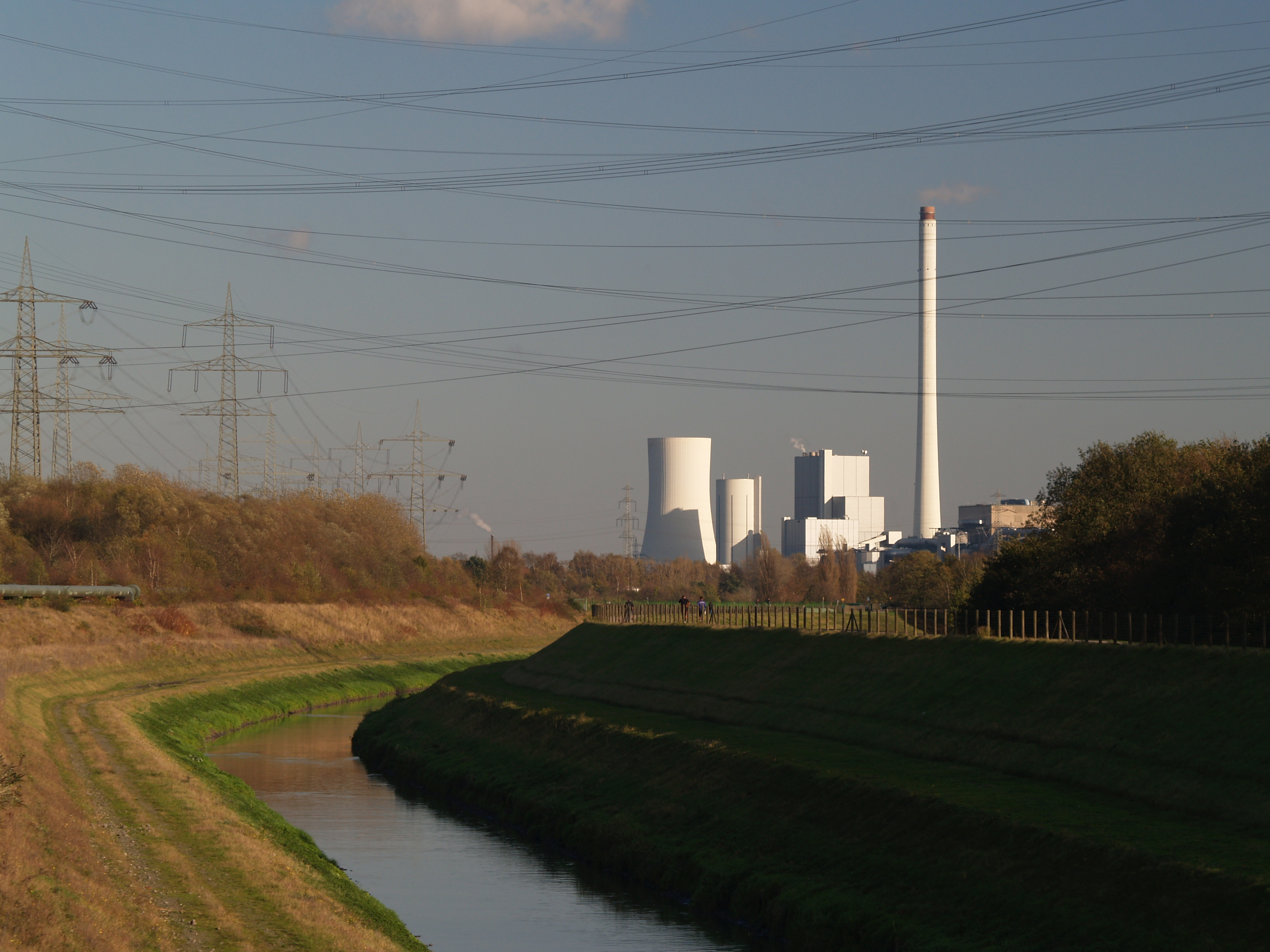 River Emscher in the Ruhr area near Herne and Herten; electricity pylons along the city border; photo taken from near 'Zentraldeponie Emscherbruch' (note the power line crossing of the Emscher)